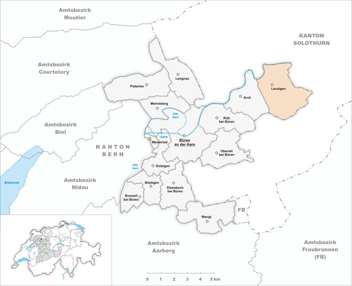 Municipality Leuzigen